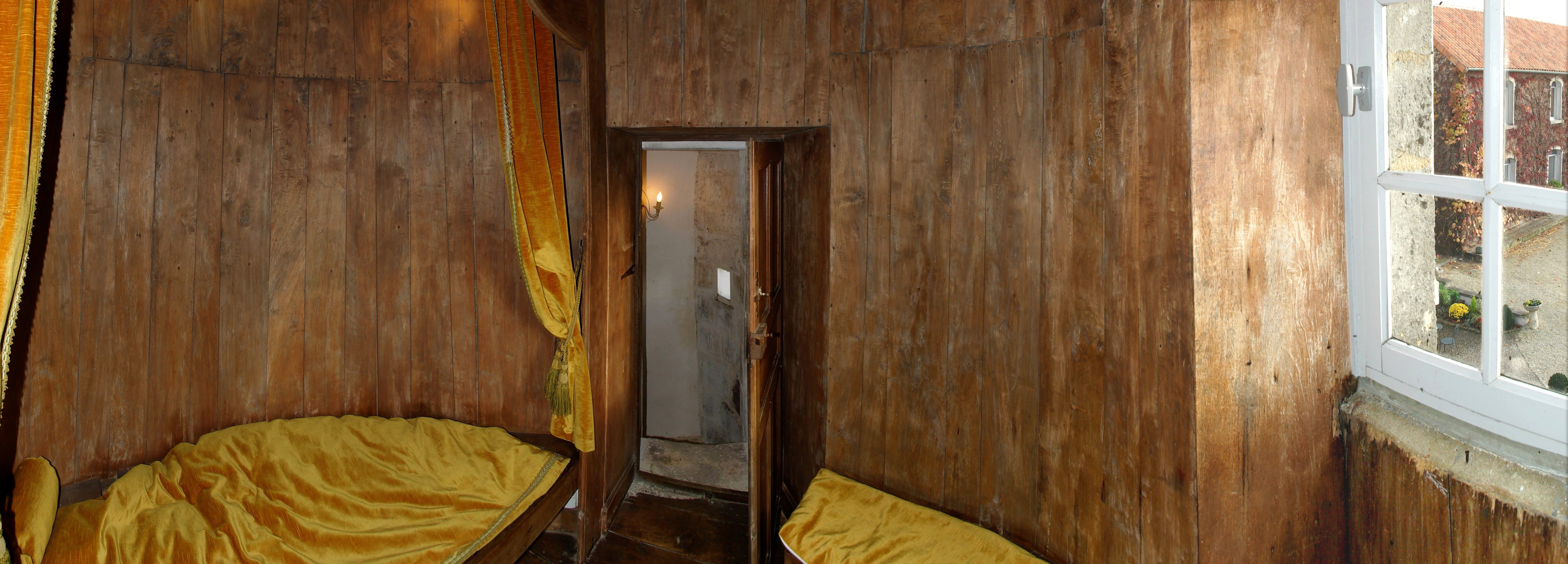 Alfred de Vigny's round room, where he used to write, at the top of the main tower of Maine-Giraud, Charente, France.